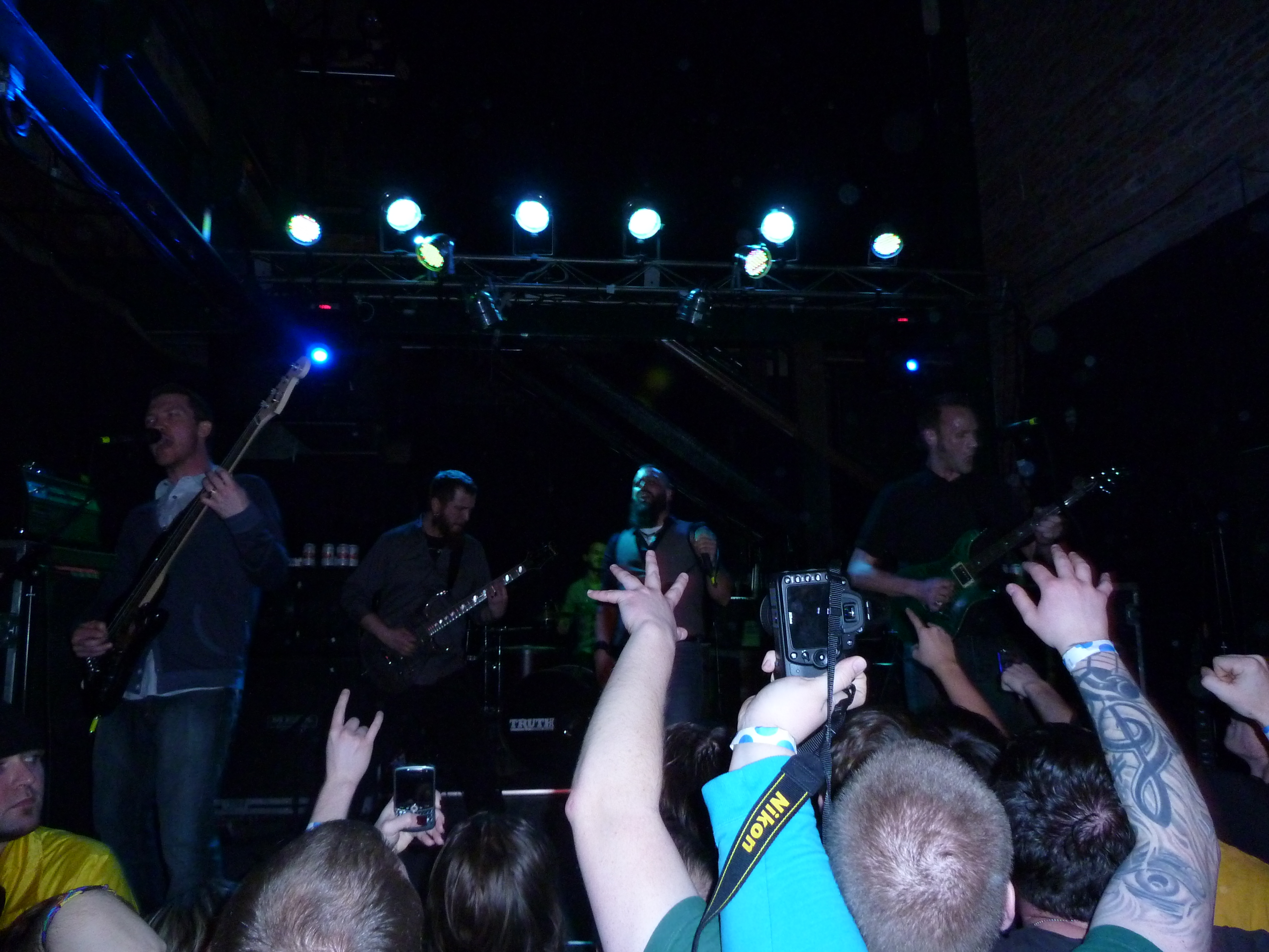 Times of Grace first show in Baltimore, MD